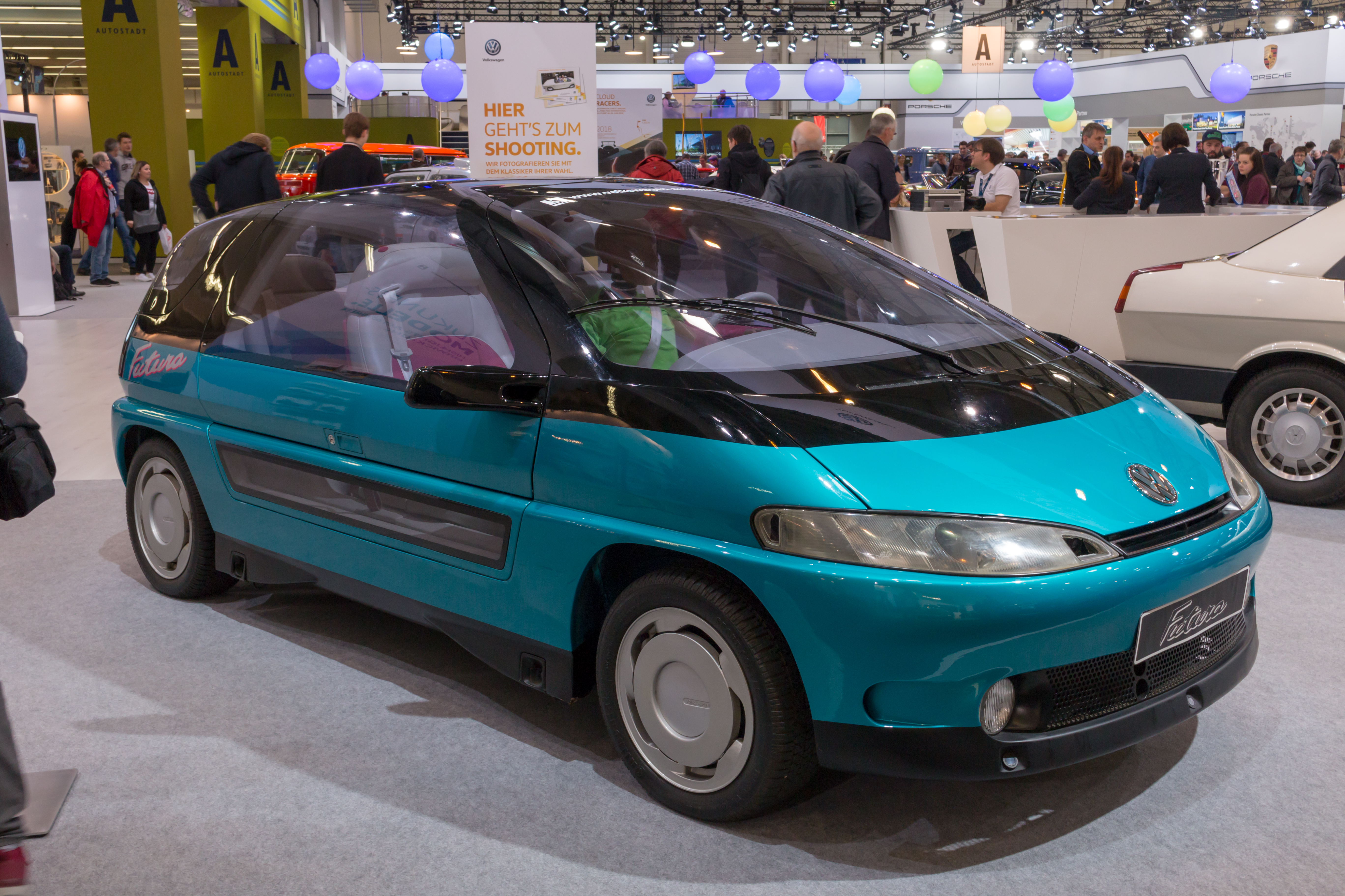 Techno Classica 2018, Essen